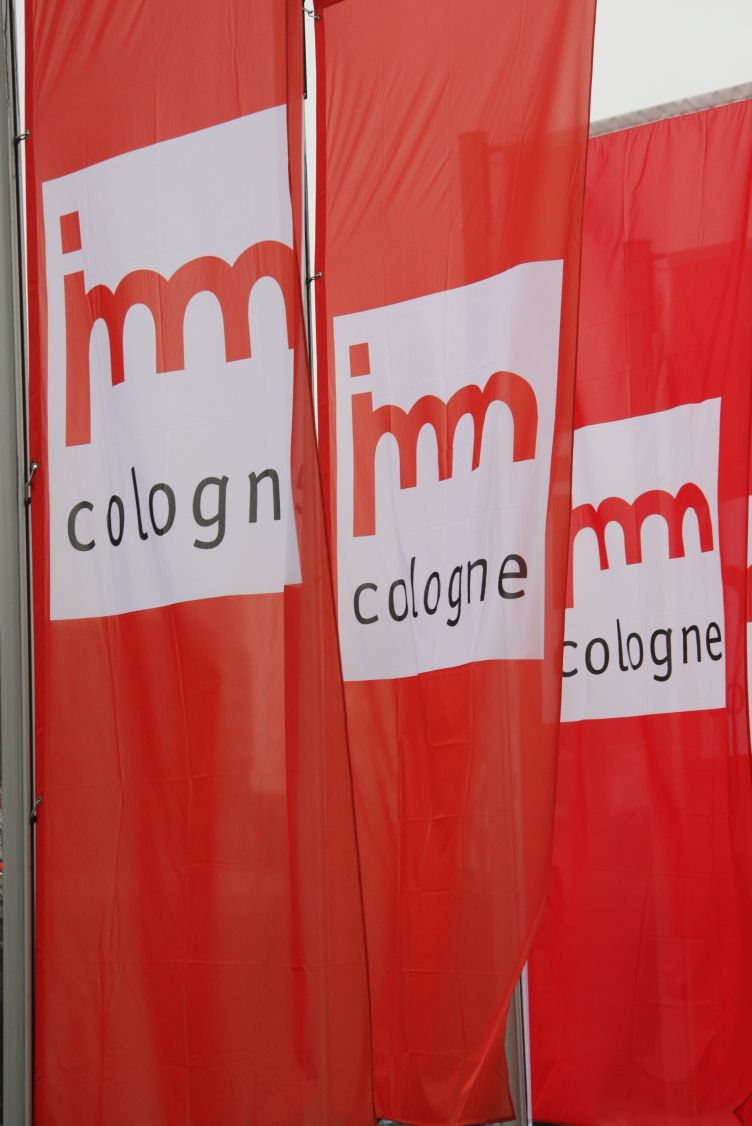 As seen during the IMM Cologne and Designers Fair Köln 2010